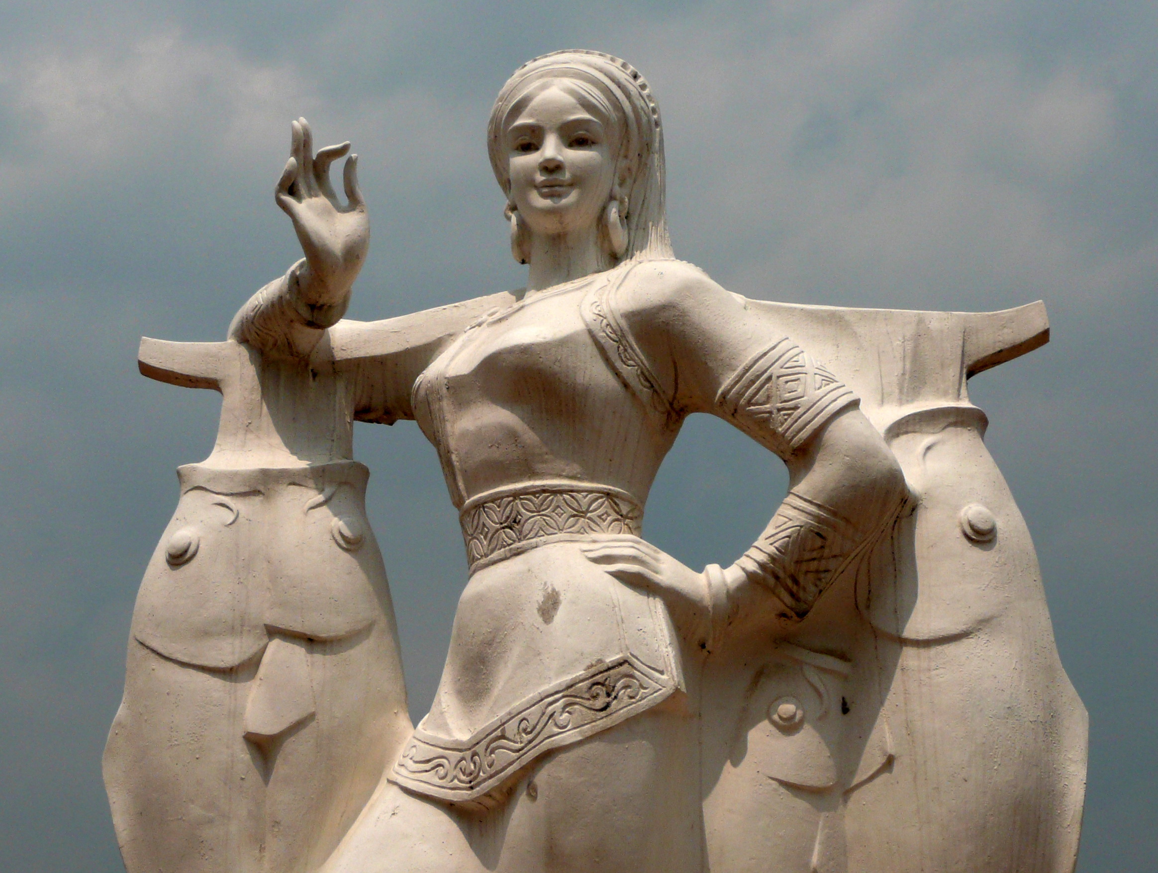 Fisherman's Girl of Dali (Yunnan) in the South of the Erhai Lake